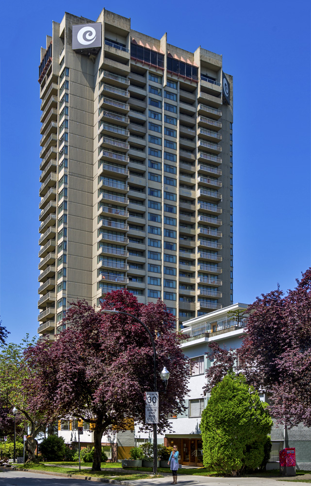 Cathedral Place hotel tower in Vancouver.